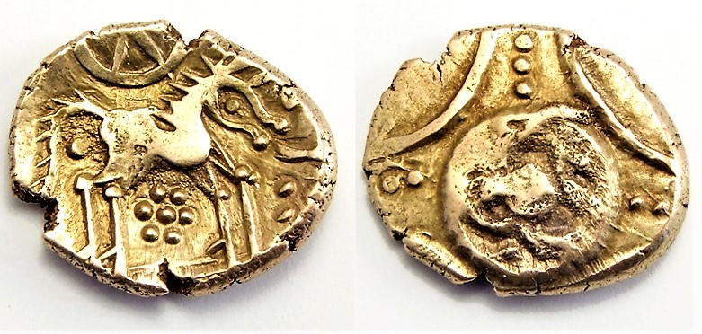 British Celts, Iceni, gold stater, earlier Freckenham Type (15 BC - 20 AD) Obv: Celticized horse right, large wheel above, daisy below horse. Rev: Flower superimposed on cross of pellets, curved lines in angles of pellet-cross.